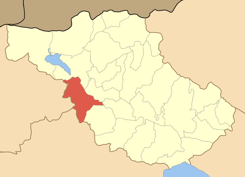 Locator map of Strimoniko municipality in Serres perfecture in Greece.